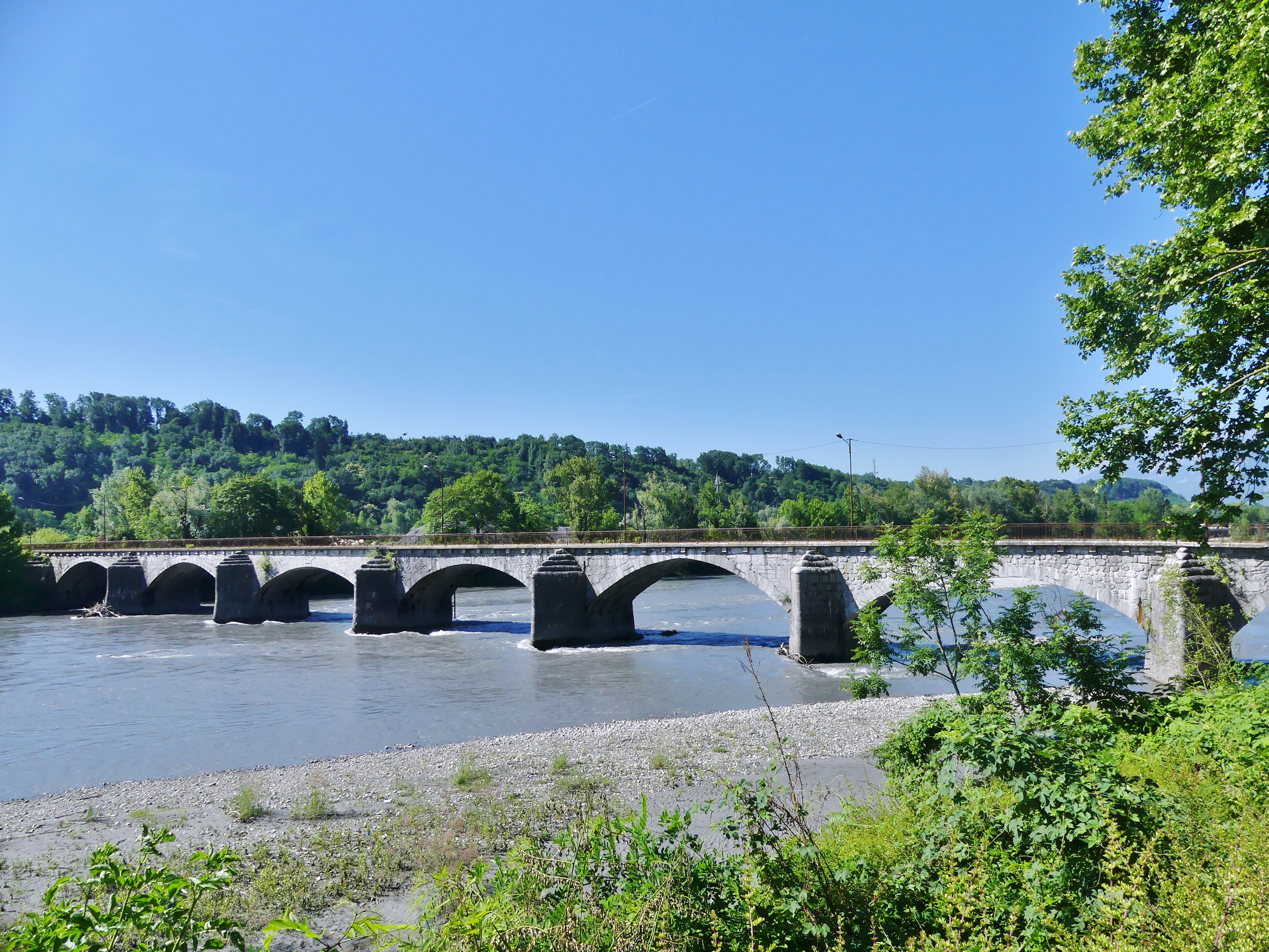 Sight, in the morning, of the northern side of the Pont Morens bridge, crossing the river Isère to reach the town of Montmélian, in Savoie, France.